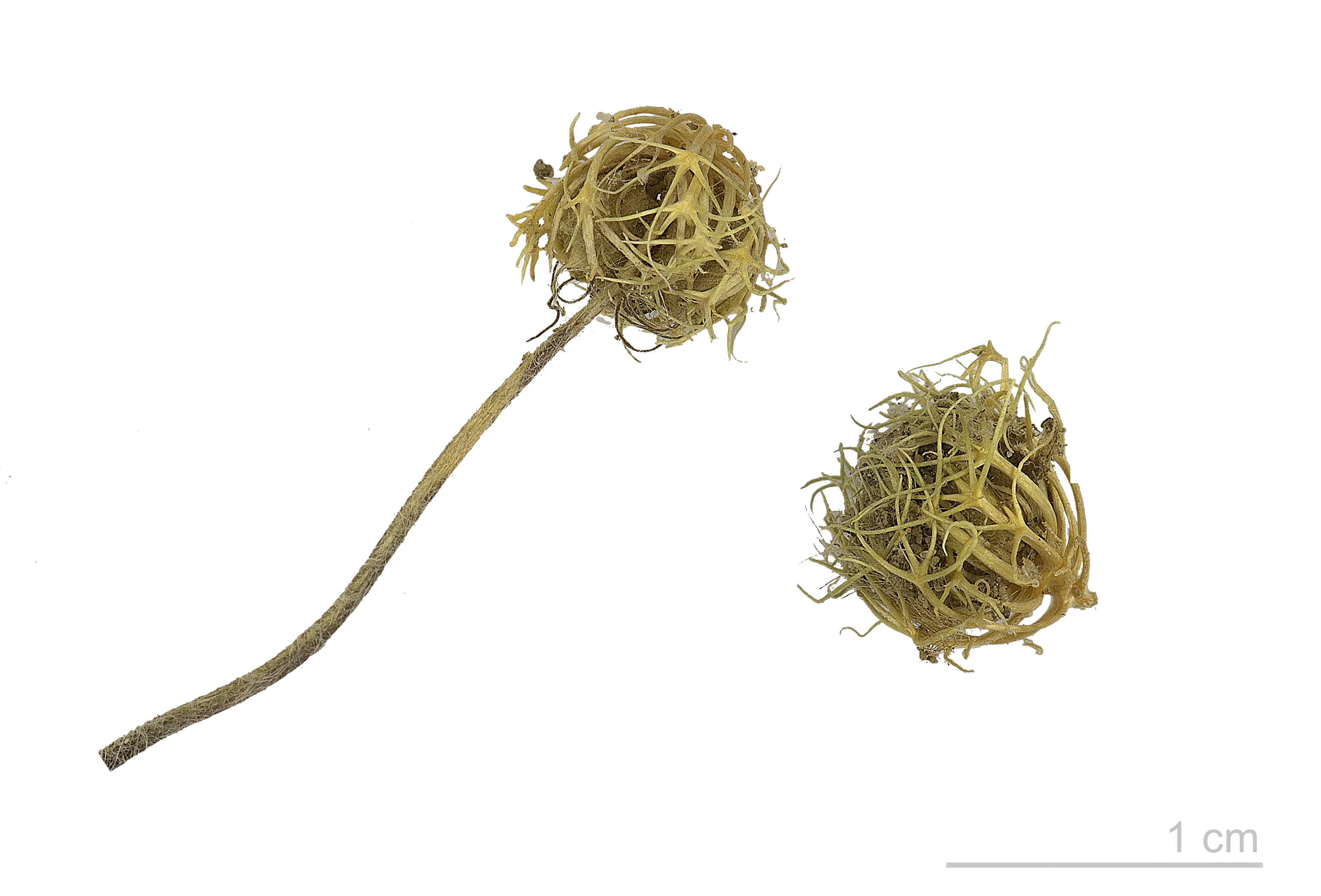 Trifolium subterraneum, subterranean clover, seeds